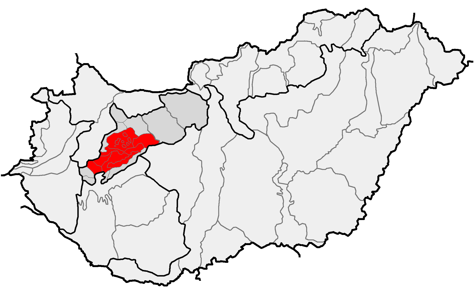 Location of Bakony (red) and macroregion of Dunántúli-középhegység (gray) within subdivisions of Hungary.